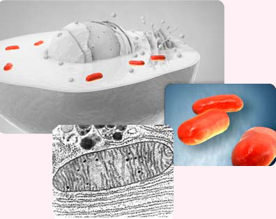 Image of mitochondria